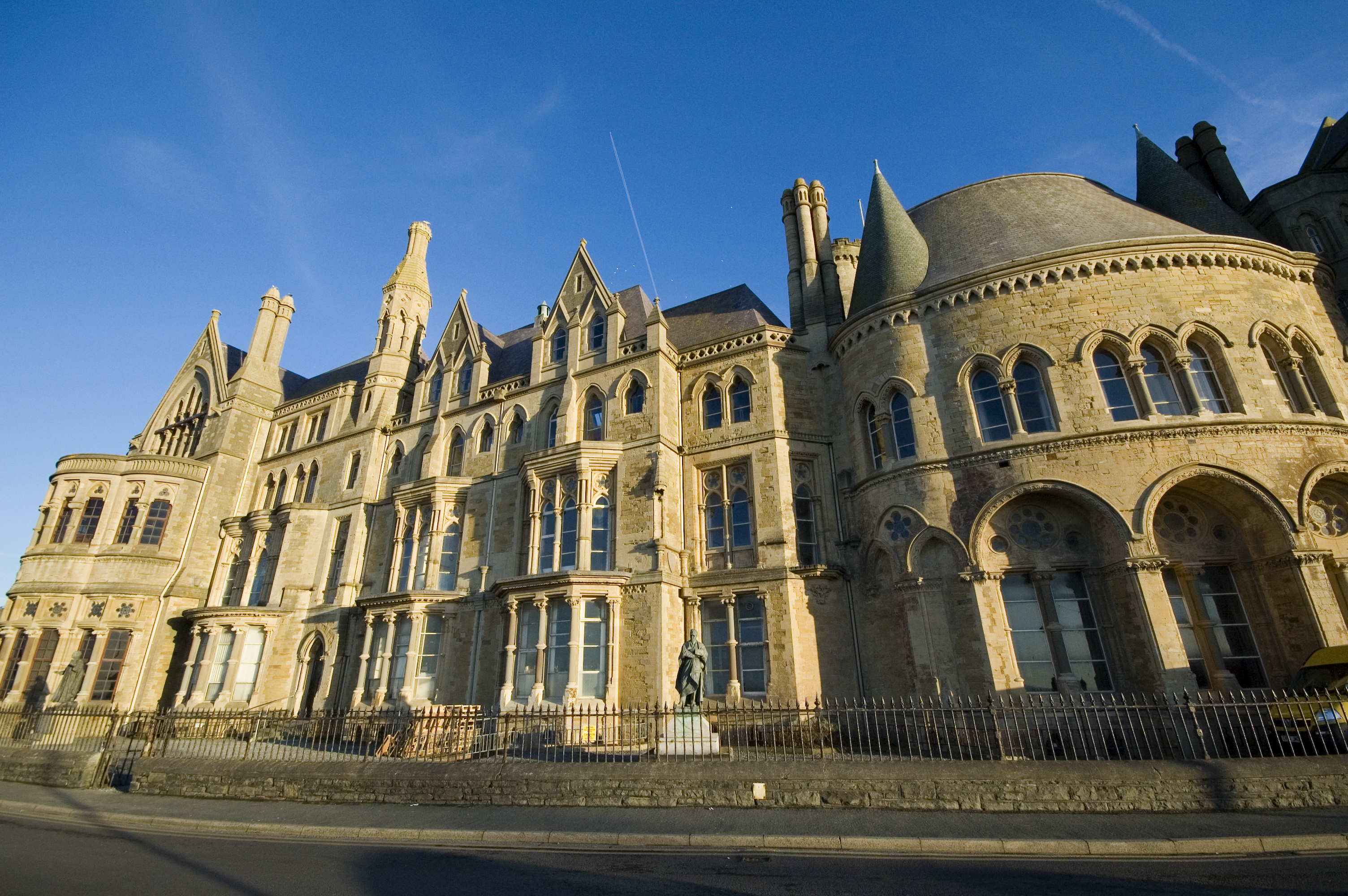 Description=Aberystwyth Old University Building taken late afternoon on a sunny Sunday in early February Source=Own Photograph Date=2007/02/04 Author=Eos12